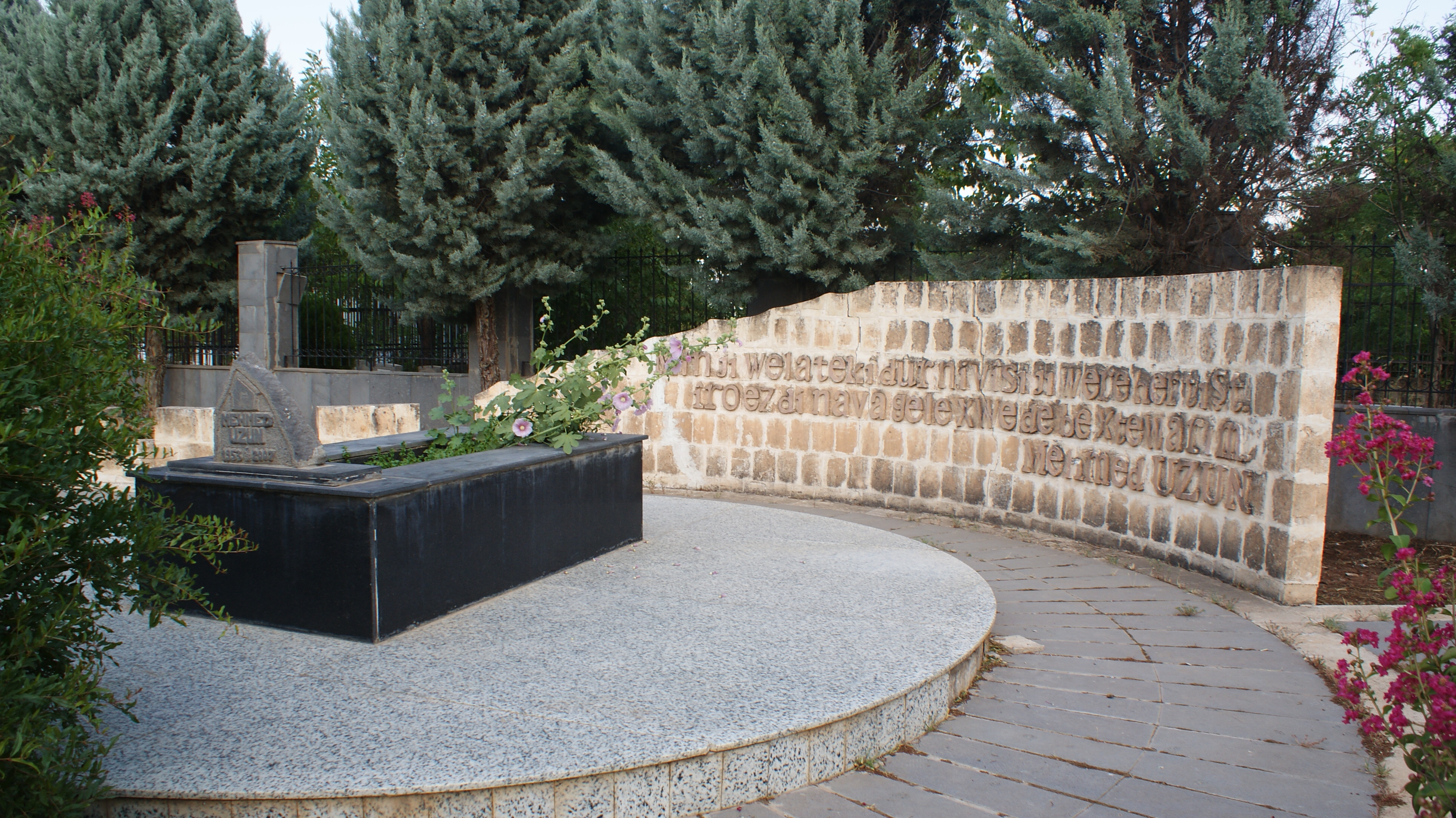 Uzun's grave in Mardinkapı Cemetery, Diyarbakır